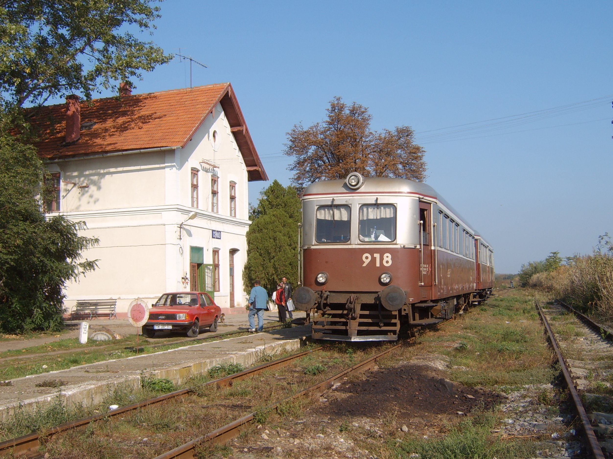 Vintage CFR railcar 77.0918 with 77.0998 behind at the rural branch line terminus of Cenad. Built back as far as 1935 and rebuilt in 1967, as of 2012 some are still in traffic making them some of the oldest rolling stock in everyday use in Europe. Train PM2688, 10:55 Cenad to Lovrin as seen on 9 October 2007.